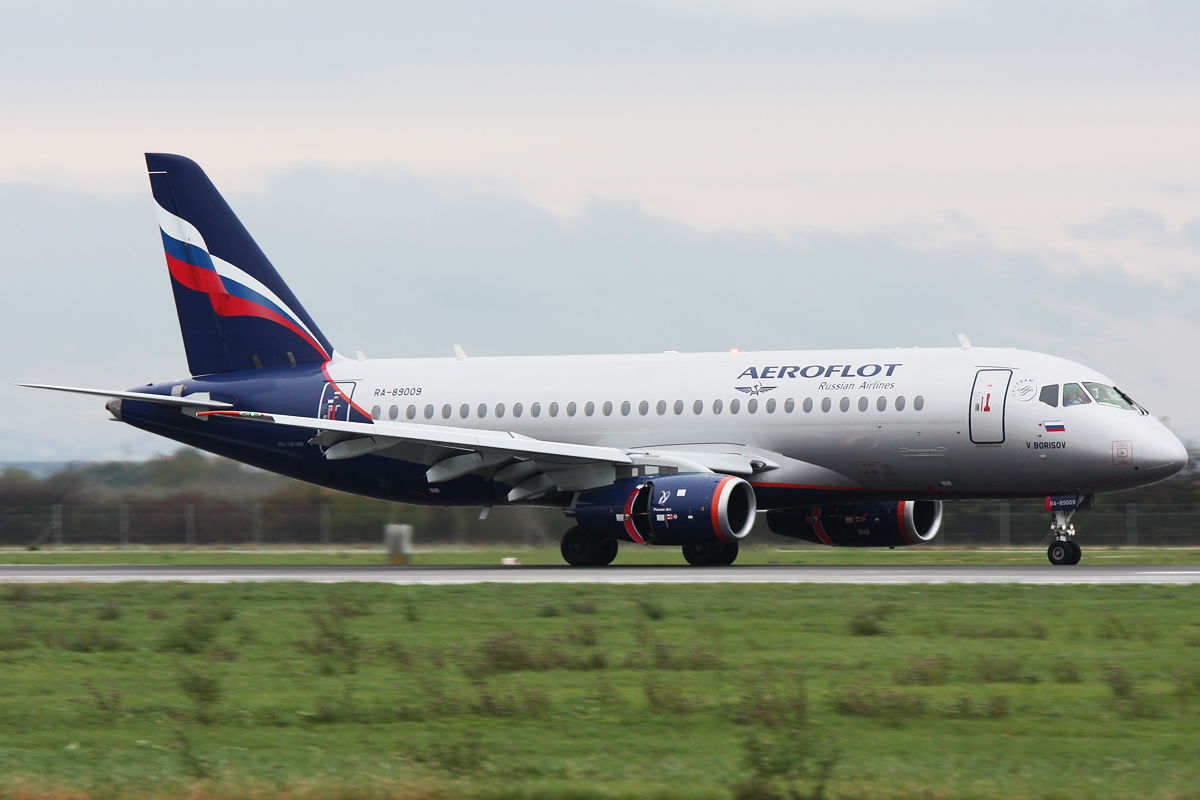 First time in Zagreb on regular flight Moscow - Zagreb.